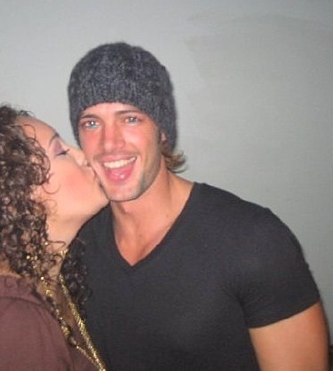 The actor, William Levy, being kissed by a fan in 2009